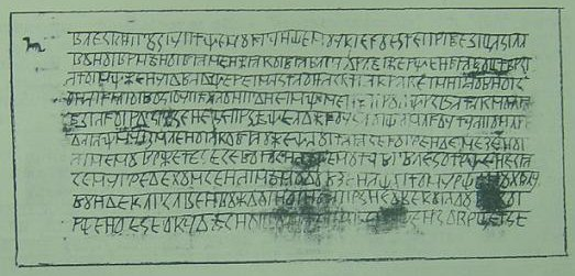 Isenbeck's Plank